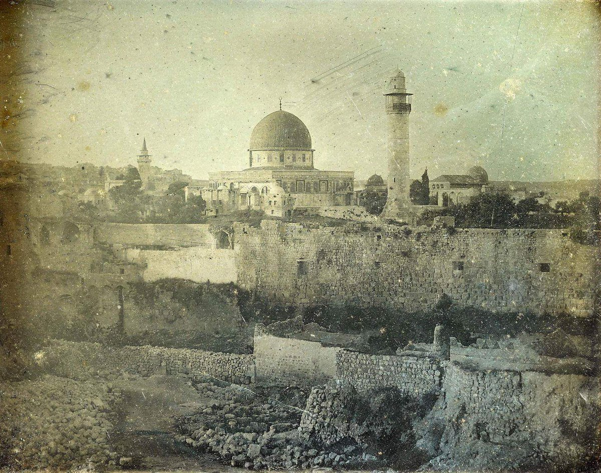 Jerusalem